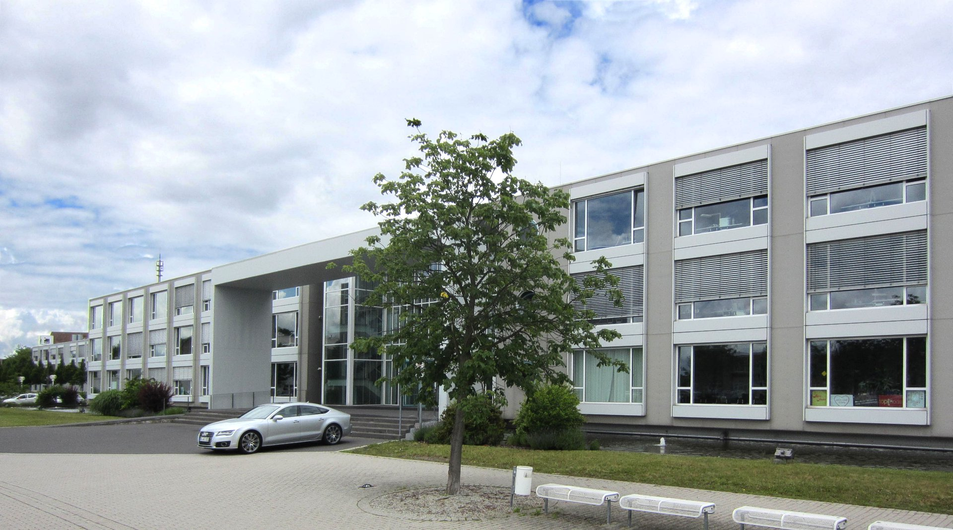 IDS Scheer (Software AG) main office in Saarbruecken